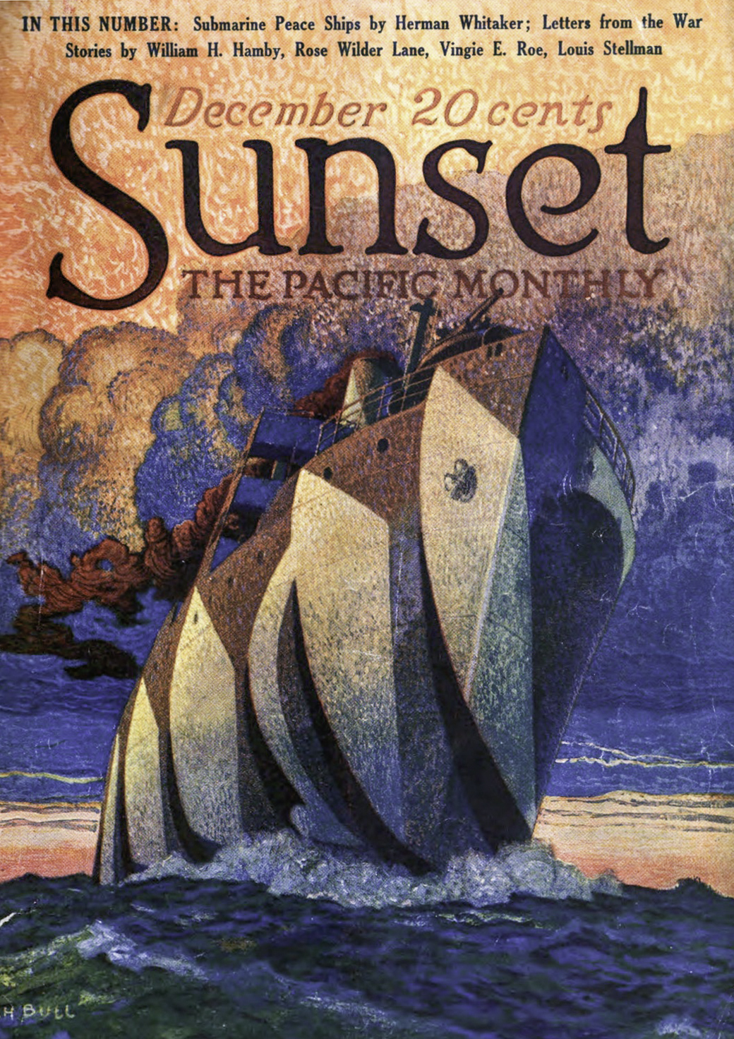 Detail of the cover of Sunset: The Pacific Monthly magazine, December 1918. It shows a dazzle camouflaged ship.